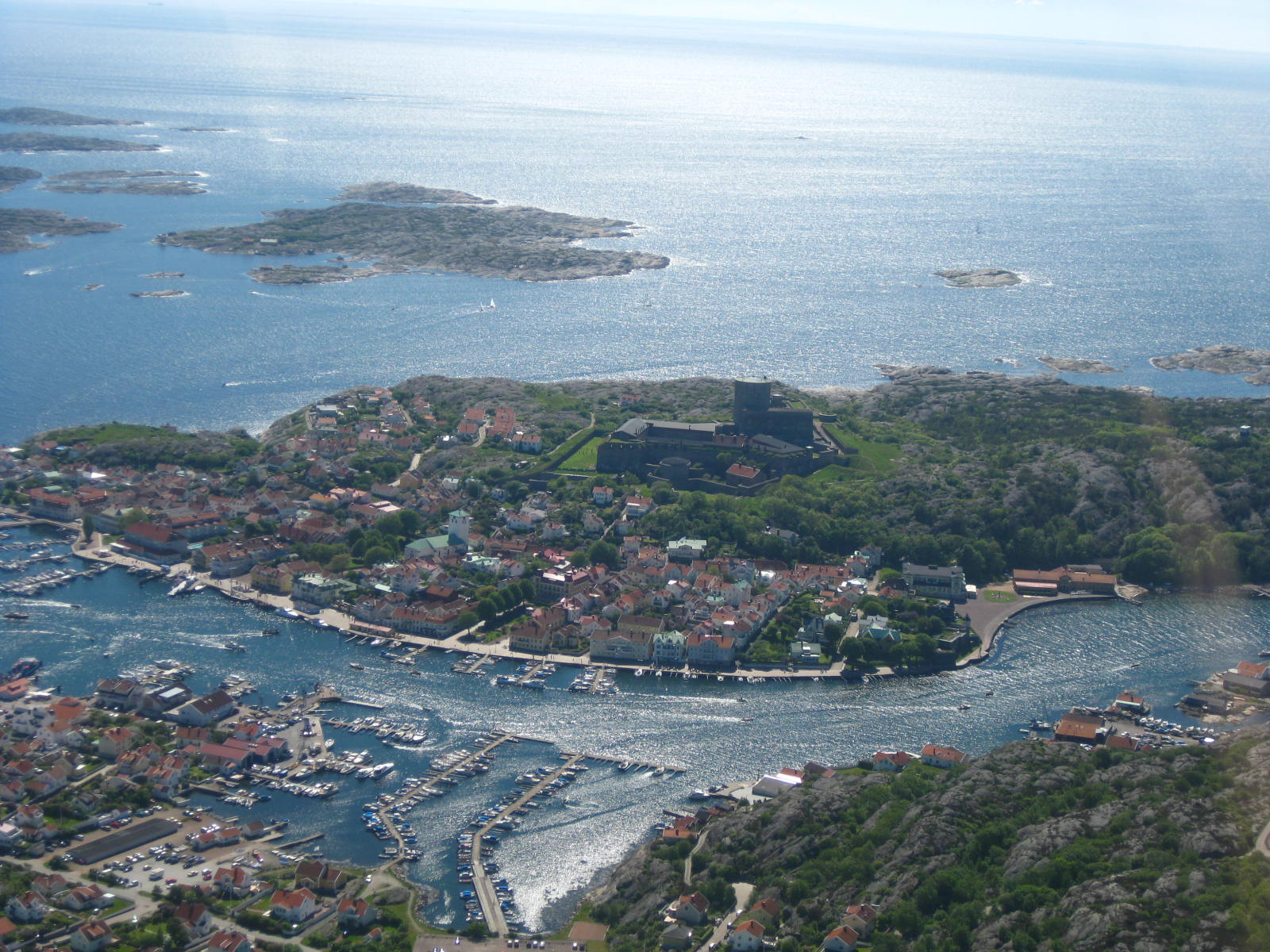 Photo taken from a helicopter showing part of the Marstrand urban area and the fortress, Carlstens Fästning